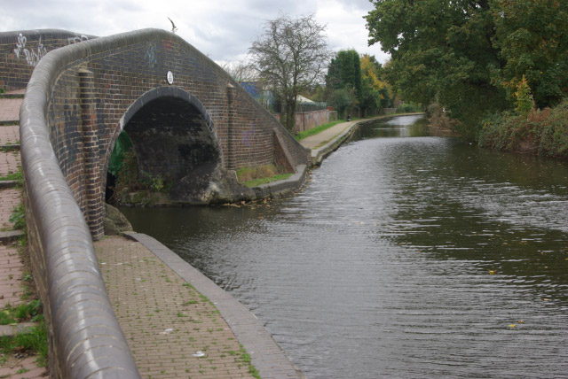 Coventry Canal, Stoke Heath The towpath bridge gives access to Stoke Heath Basin.